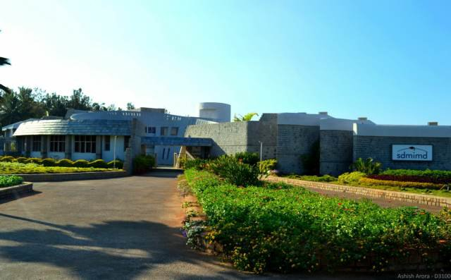 A view of the entrance of the SDM Institute for Management Development